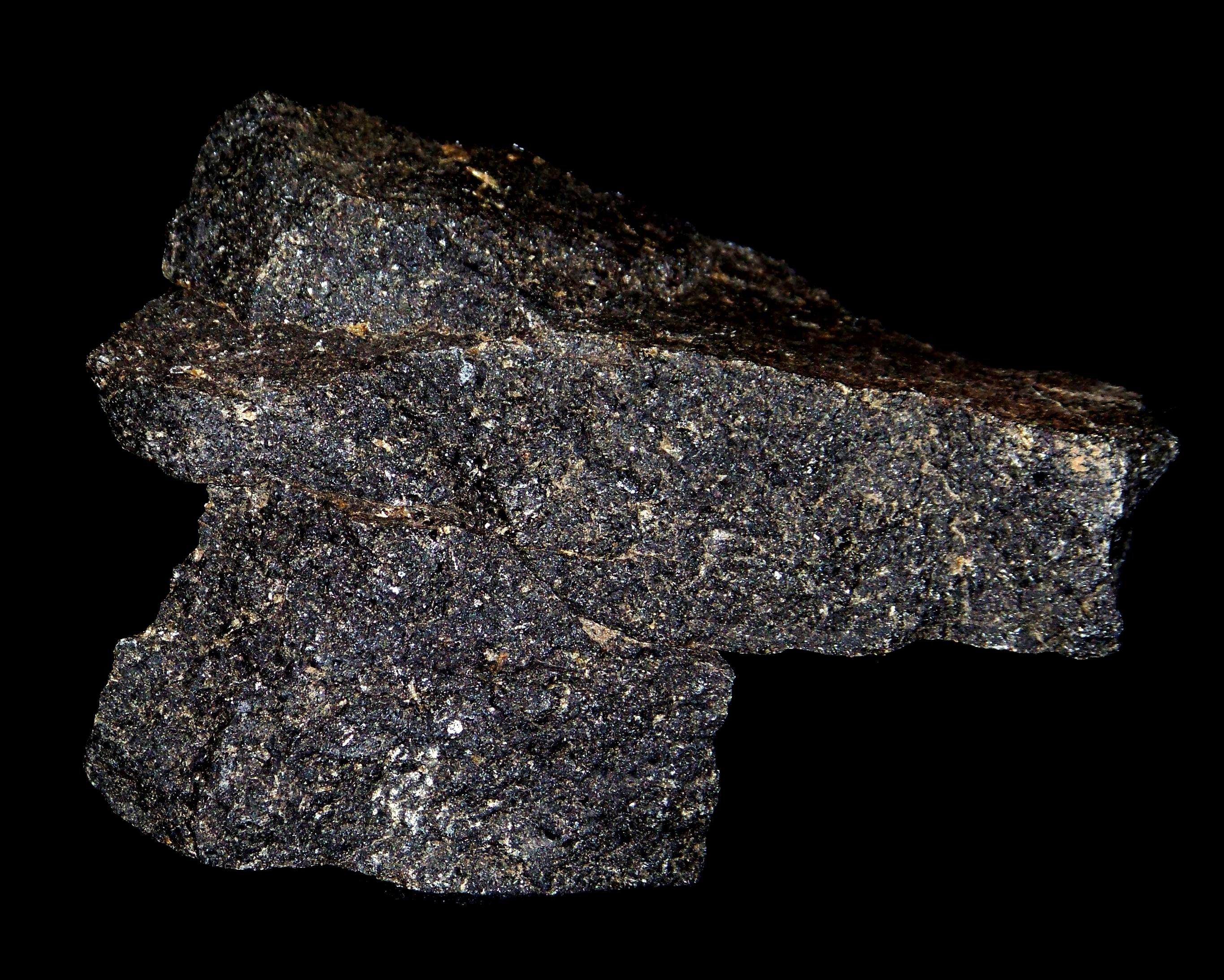 Diabase